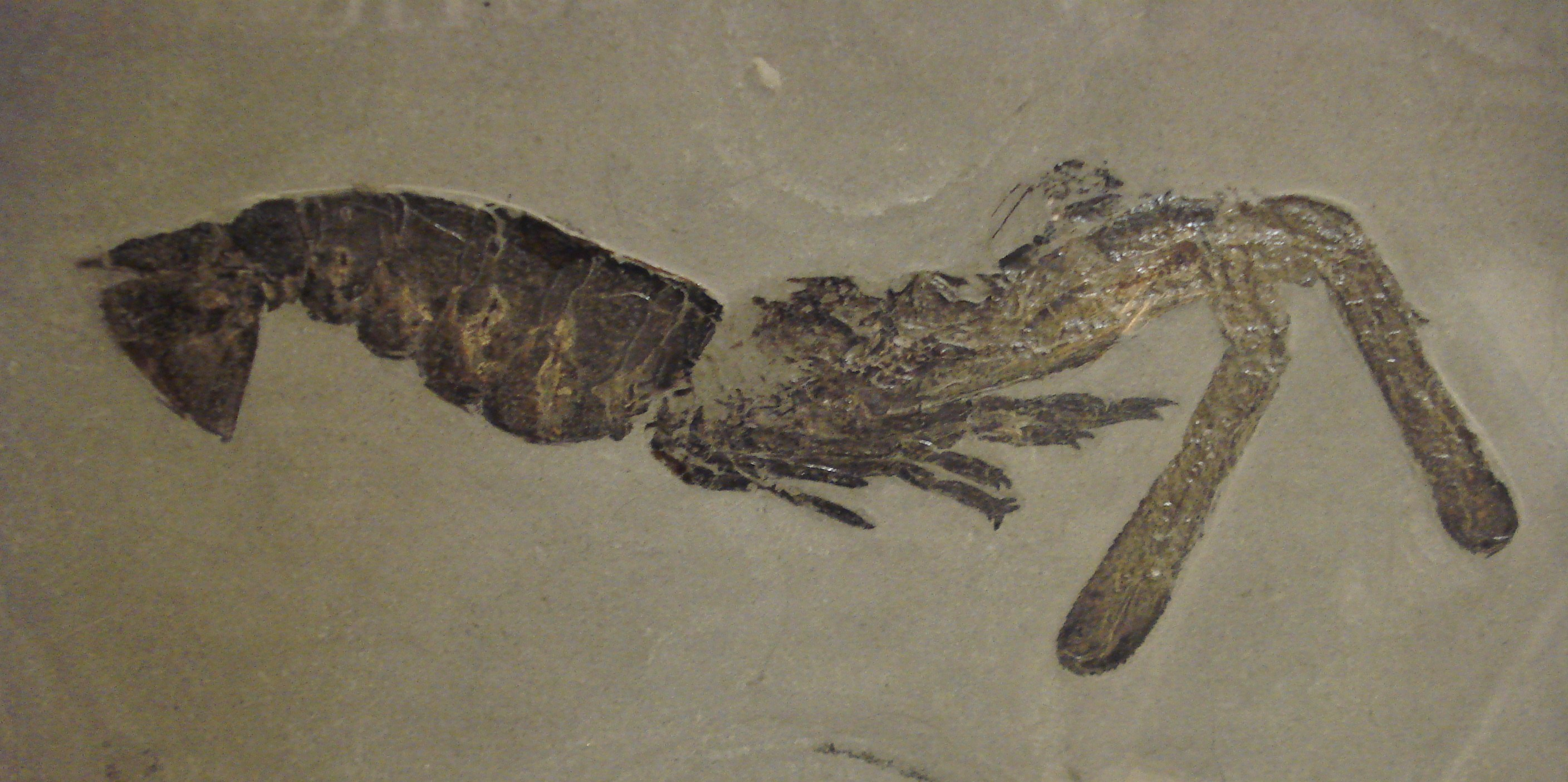 fossil of Uncina